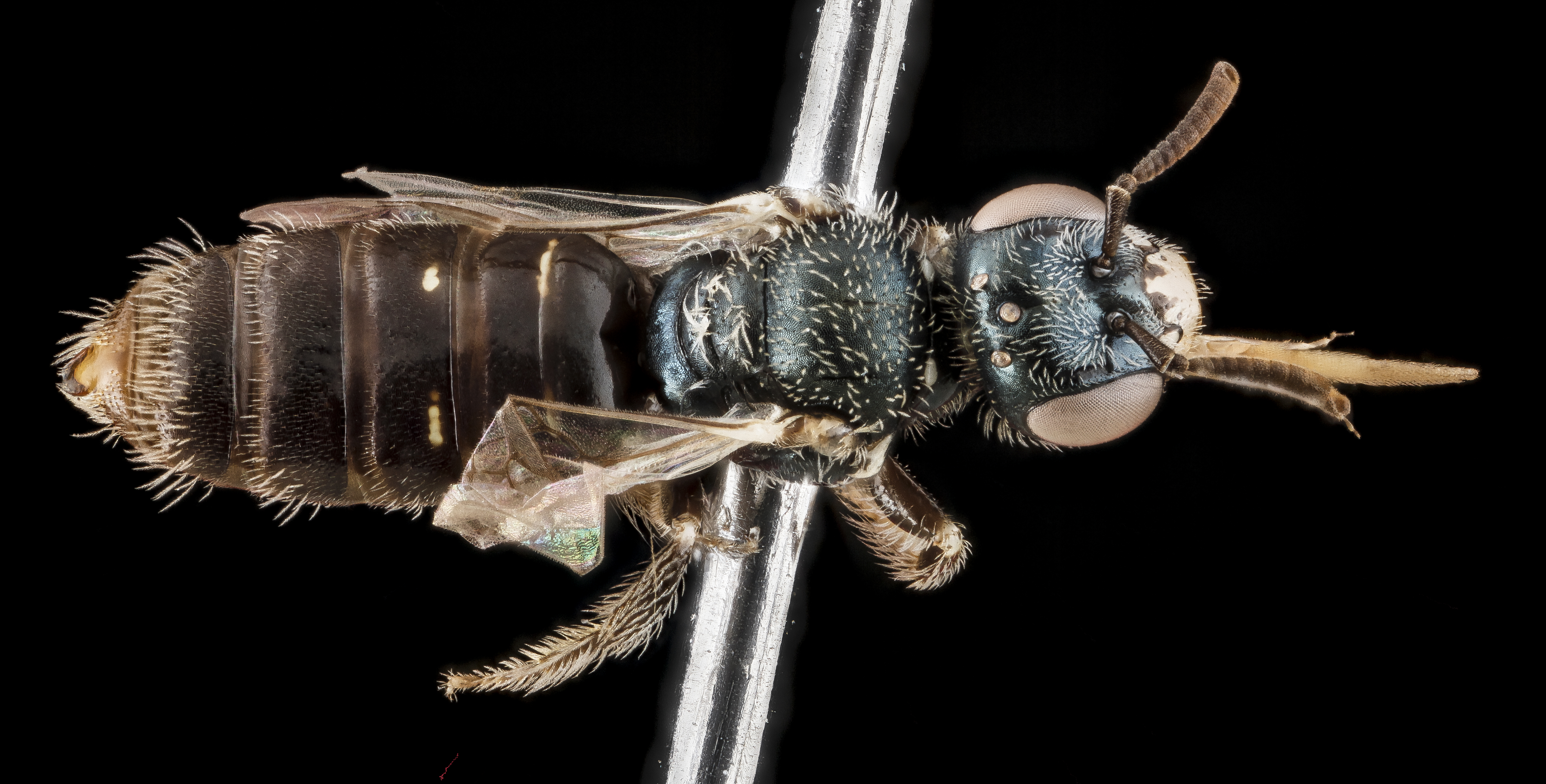 Fort Mantanzas has more cool bees to share with use from a tiny coastal monument run by the park service along the upper coast of Florida. This time more junior bees in the genus Perdita. Photography by Sierra Williams, photoshopping by Elizabeth Garcia. 03:06, 11 April 2016 (UTC)03:06, 11 April 2016 (UTC) 0 03:06, 11 April 2016 (UTC)03:06, 11 April 2016 (UTC) All photographs are public domain, feel free to download and use as you wish. Photography Information: Canon Mark II 5D, Zerene Stacker, Stackshot Sled, 65mm Canon MP-E 1-5X macro lens, Twin Macro Flash in Styrofoam Cooler, F5.0, ISO 100, Shutter Speed 200 Beauty is truth, truth beauty - that is all Ye know on earth and all ye need to know " Ode on a Grecian Urn" John Keats You can also follow us on Instagram account USGSBIML Want some Useful Links to the Techniques We Use? Well now here you go Citizen: Art Photo Book: Bees: An Up-Close Look at Pollinators Around the World Basic USGSBIML set up: USGSBIML Photoshopping Technique: Note that we now have added using the burn tool at 50% opacity set to shadows to clean up the halos that bleed into the black background from "hot" color sections of the picture. PDF of Basic USGSBIML Photography Set Up: ftp://ftpext.usgs.gov/pub/er/md/laurel/Droege/How%20to%20Take%20MacroPhotographs%20of%20Insects%20BIML%20Lab2.pdf Google Hangout Demonstration of Techniques: or Excellent Technical Form on Stacking: Contact information: Sam Droege 301 497 5840